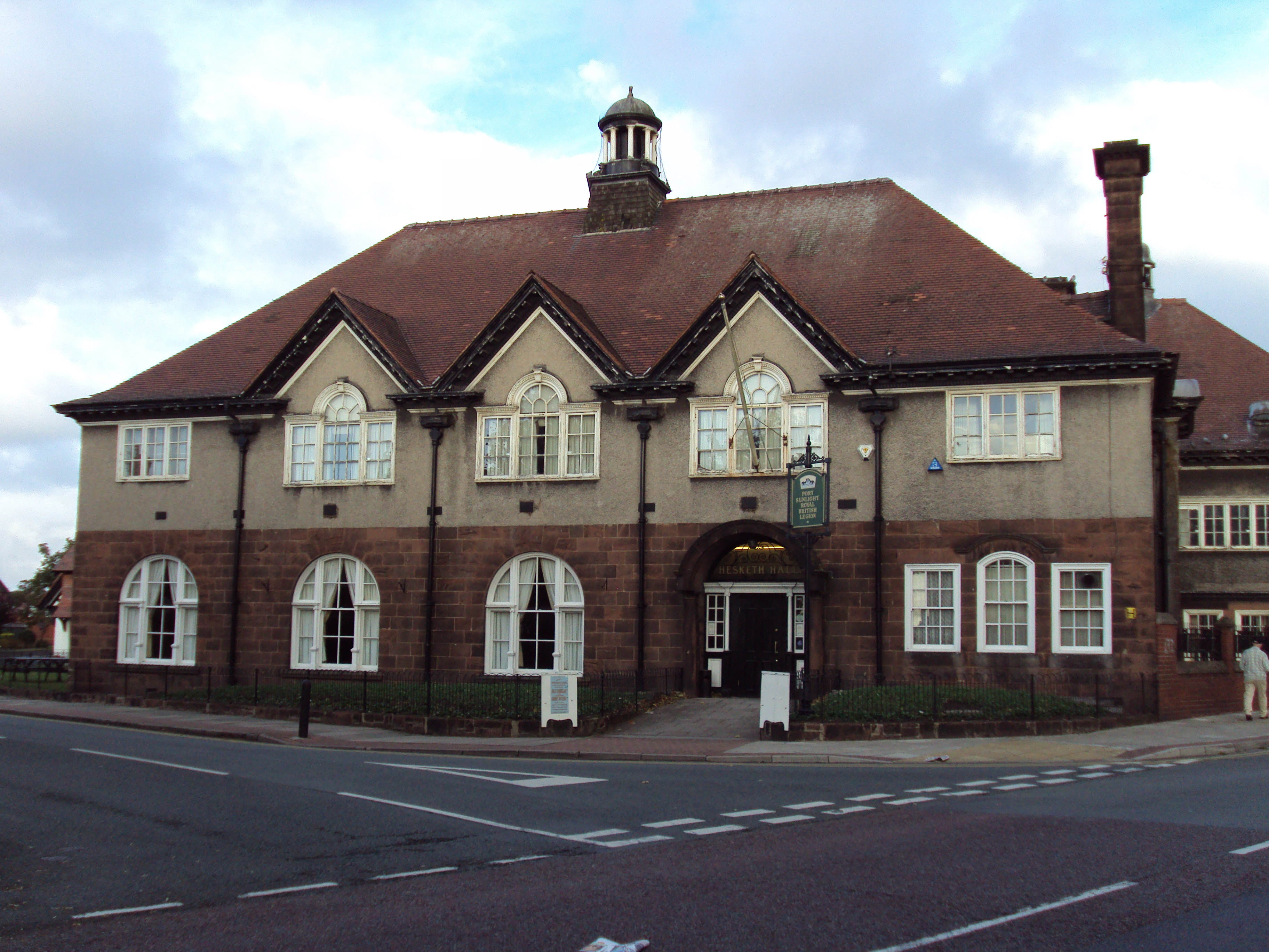 Hesketh Hall, Port Sunlight, Wirral, England.